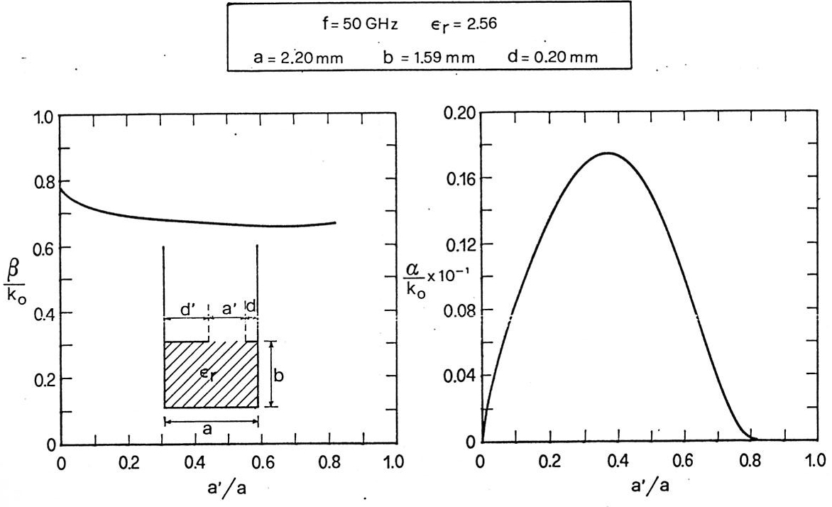 effet of the stub width